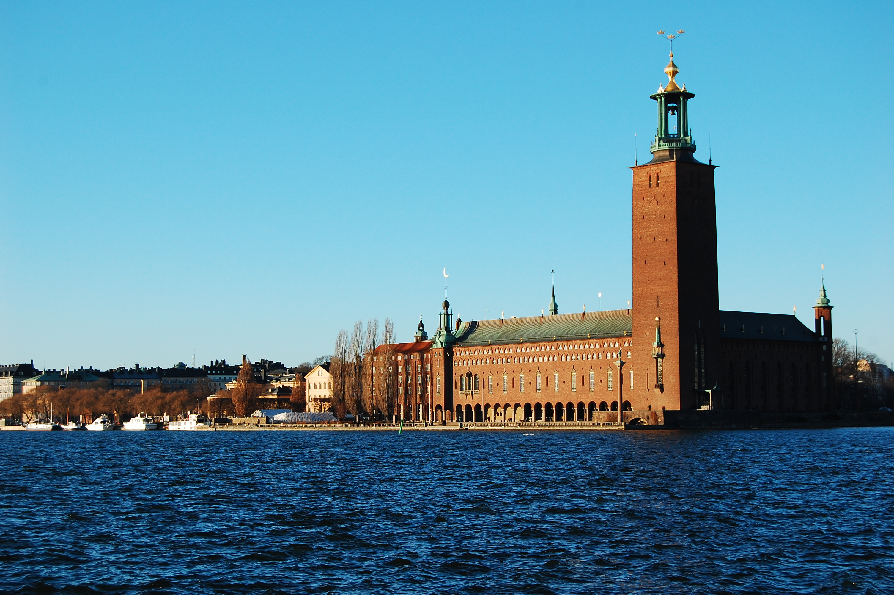 Photo of Stockholm City Hall